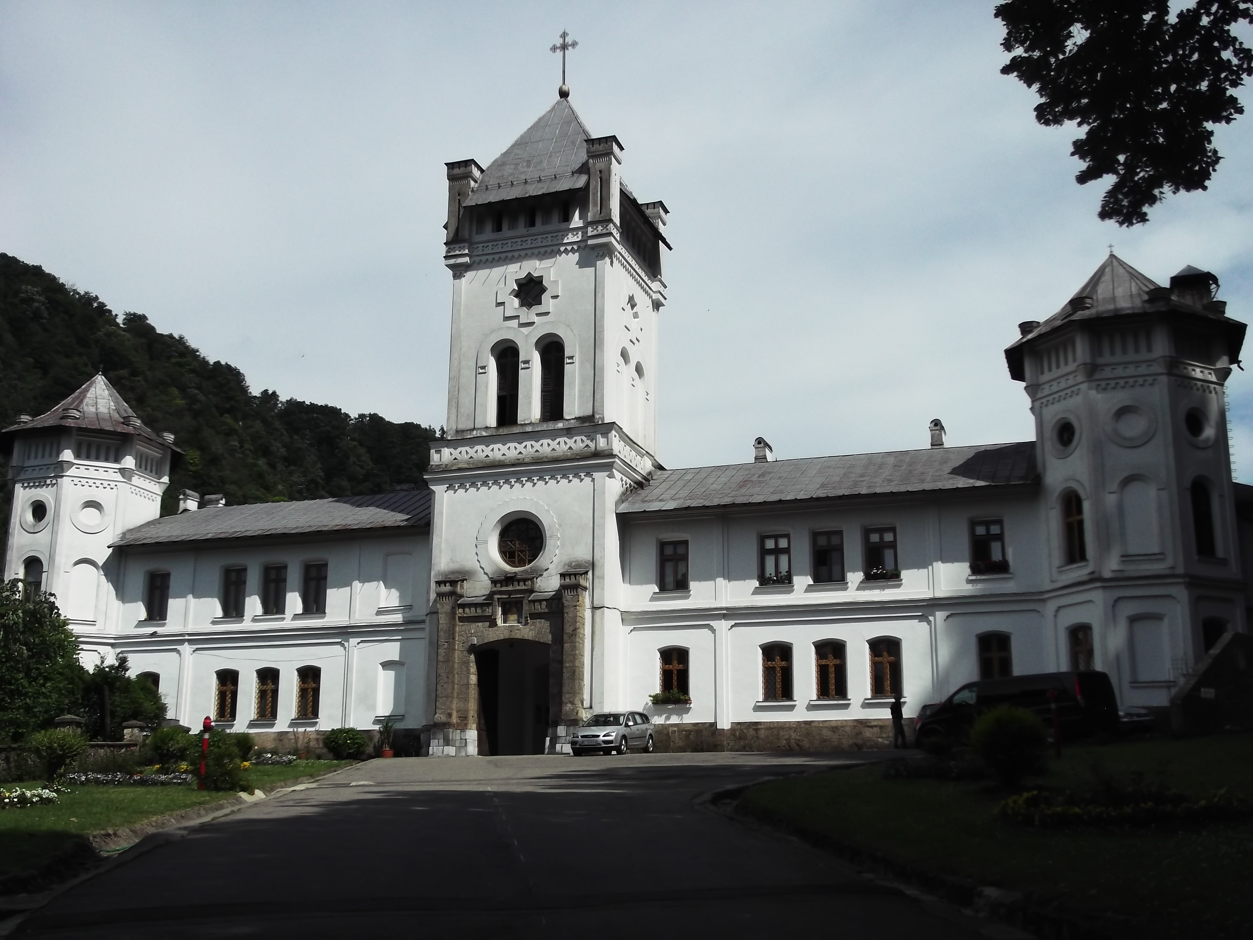 Tismana Monastery, 2015